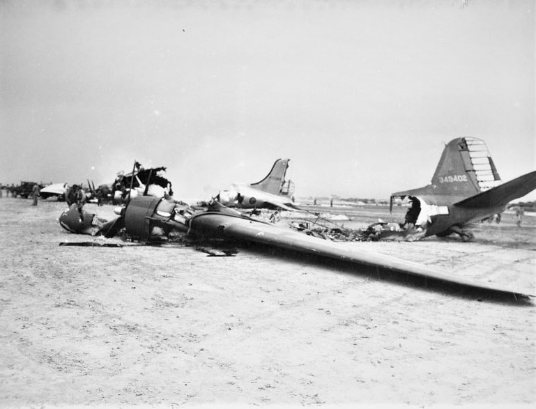 Wreckage of Douglas R4D in the foreground is all that remains of the twin-engine transport which brought Major General James T. Moore, commanding general of Aircraft, Fleet Marine Force, Pacific, to Okinawa on an inspecting tour.